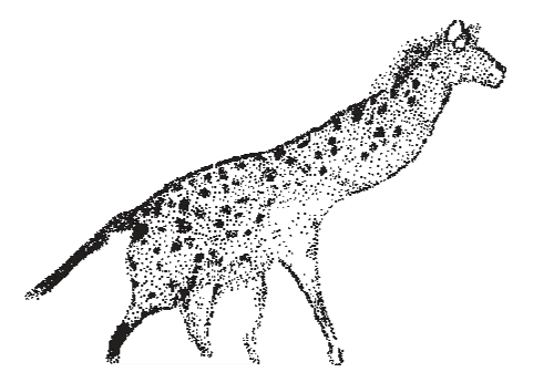 Trace of French cave art possibly depicting a cave hyena. Lascaux Cave, Dordogne, France.